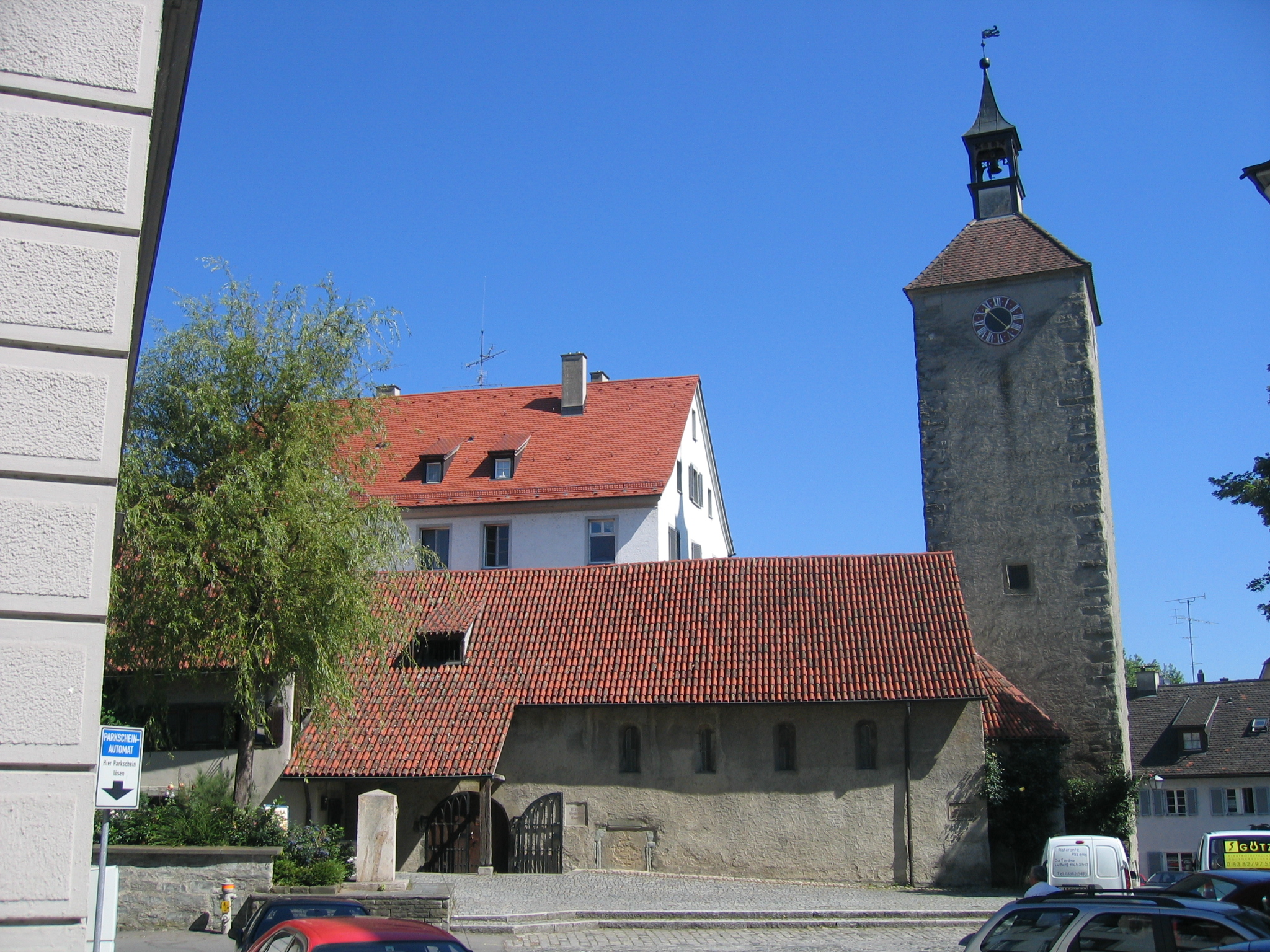 Peterskirche (St. Peter Church) in Lindau (Lake of Constance), Germany